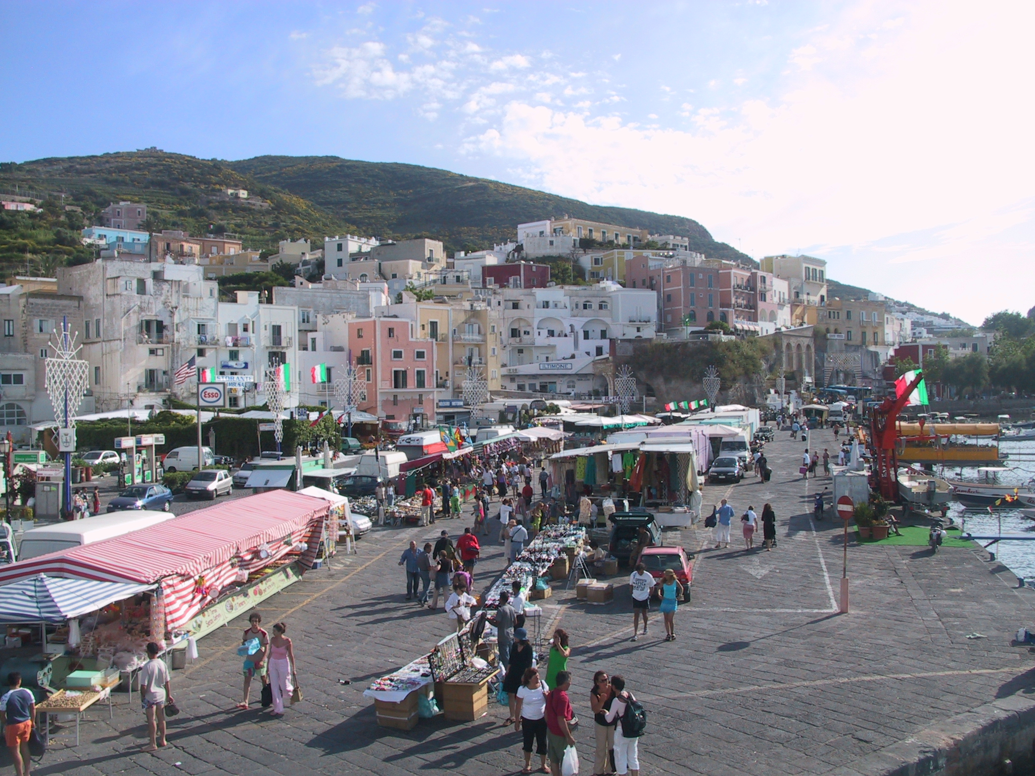 Port of Ponza.